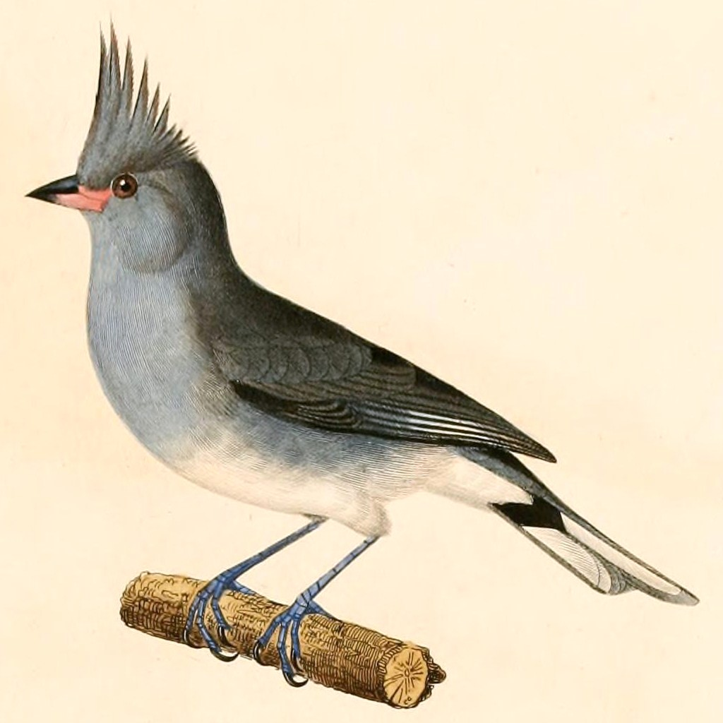 « Emberiza griseocristata » = Lophospingus griseocristatus (Grey-crested Finch)